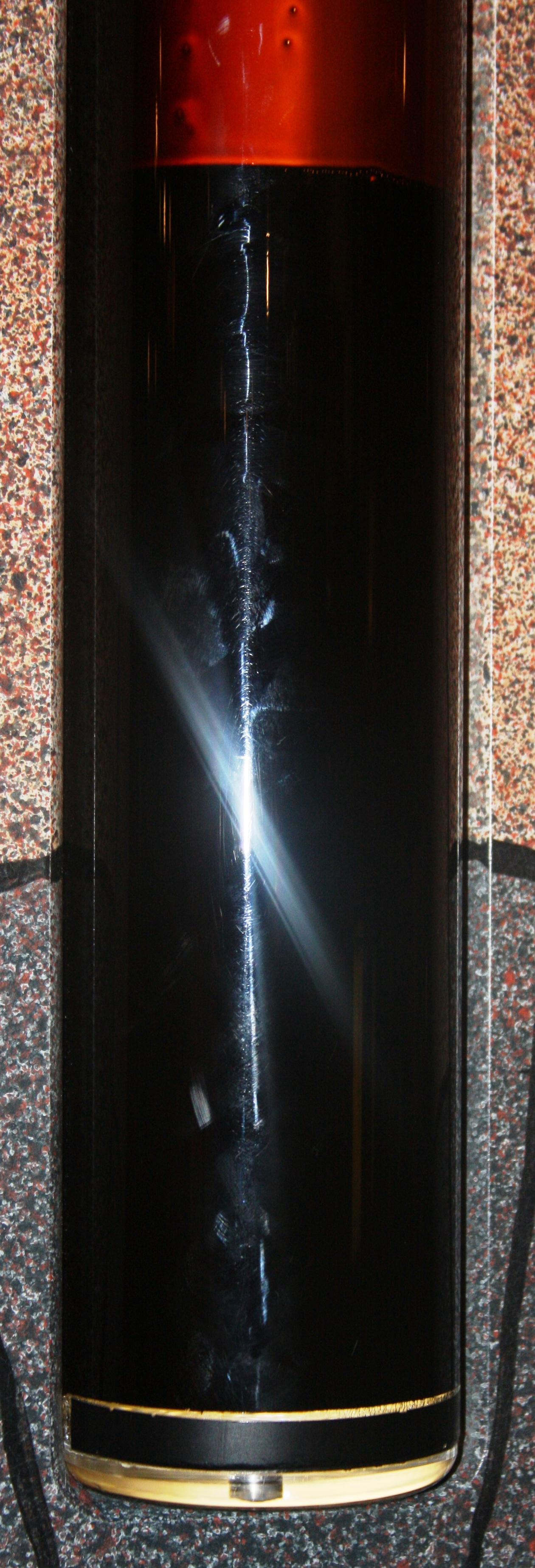 North Sea Oil from the Norwegian continental shelf. This oil is from the Ekofisk field. API value = 36.0. Viscosity at 50 degrees Celsius = 25.0 c/p.